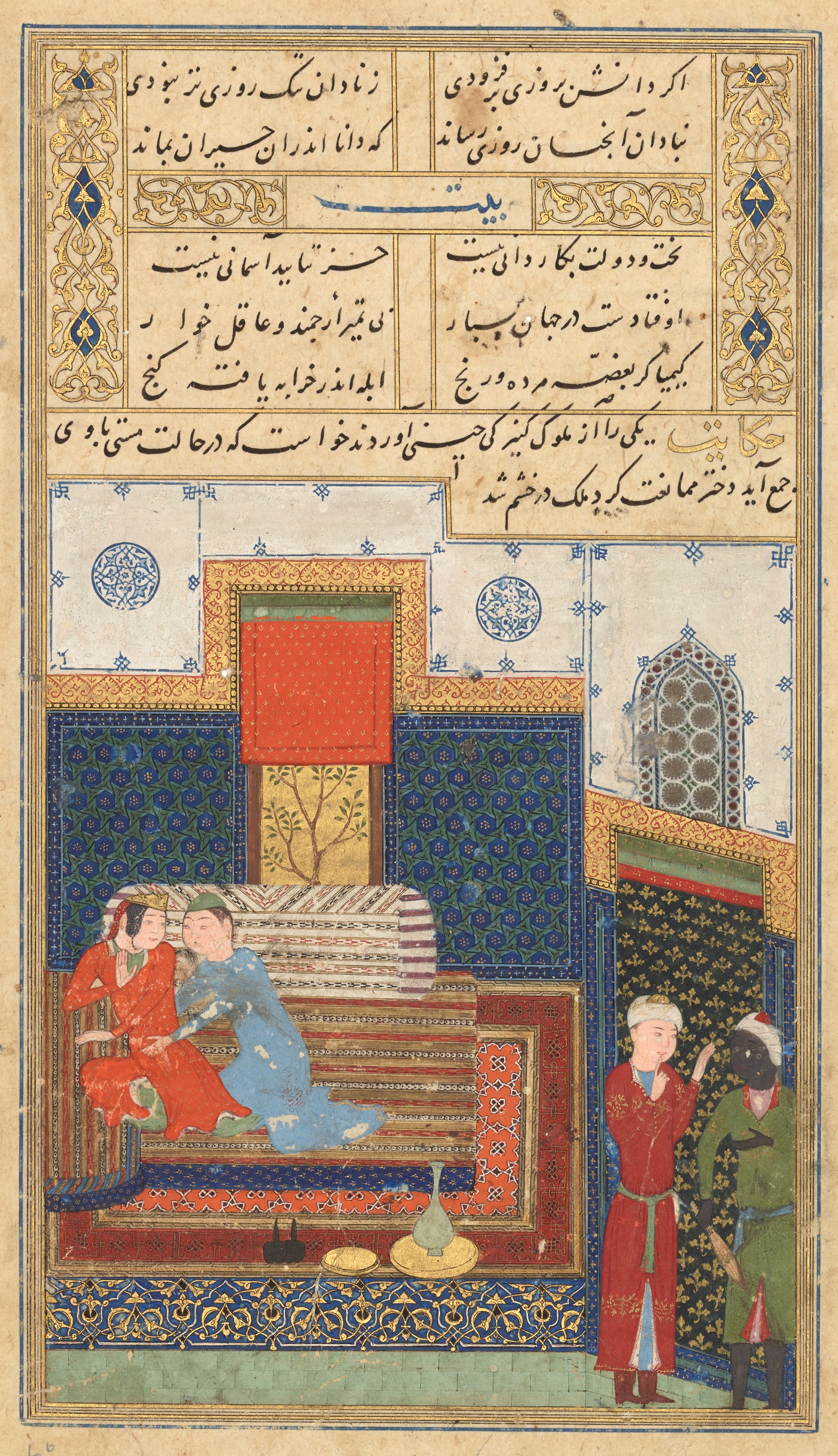 A_drunken_prince_assaults_a_Chinese_maiden.Miniature_from_Gulistan_Sa'di._Herat,_1427._Chester_Beatty_Library,_Dublin._f.16r